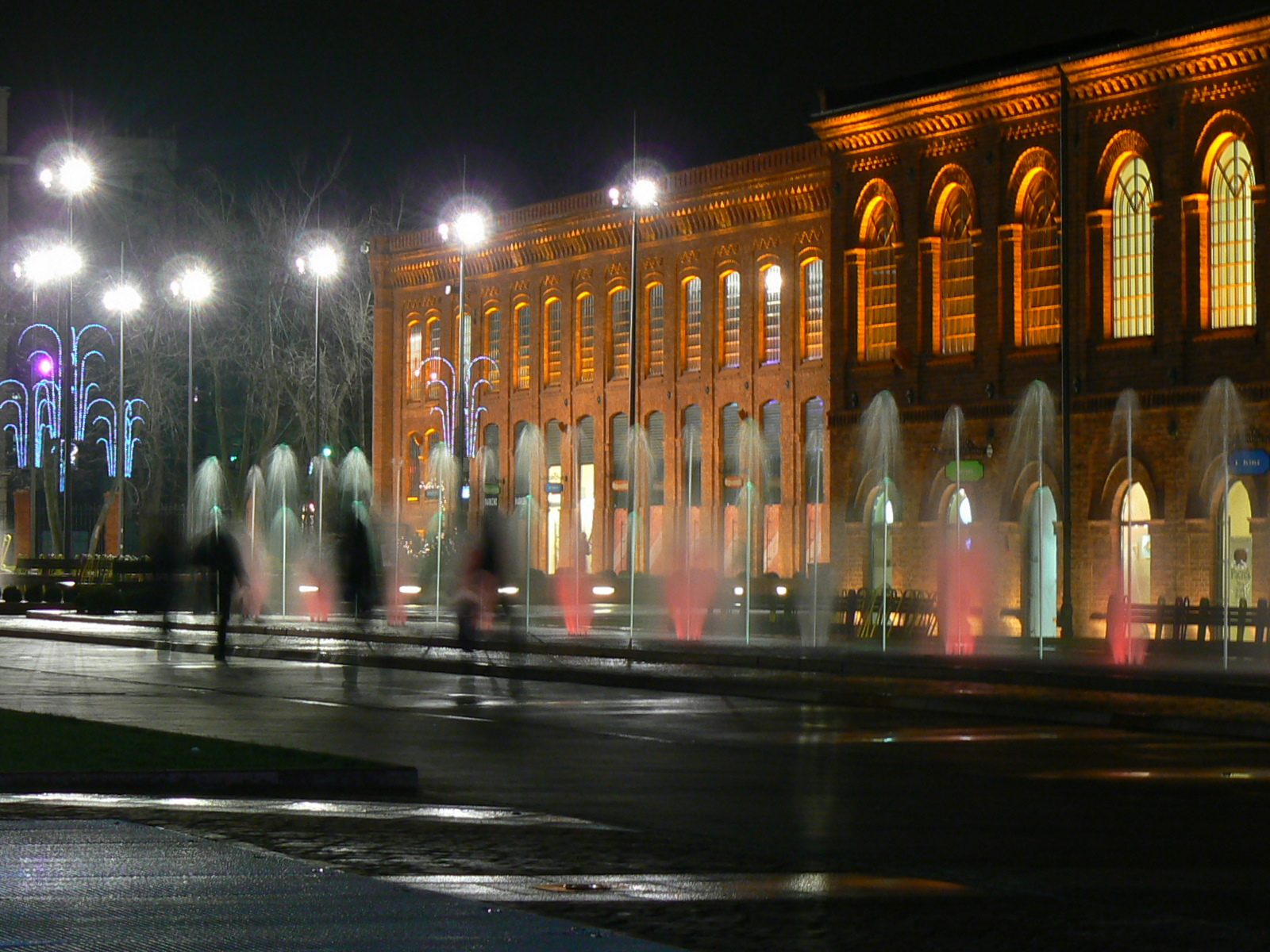 Manufaktura in Łódź at night - a view from the Market Place